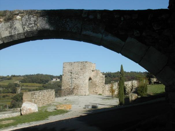 Cairanne_Templar's_Tower, Vaucluse dpt, France